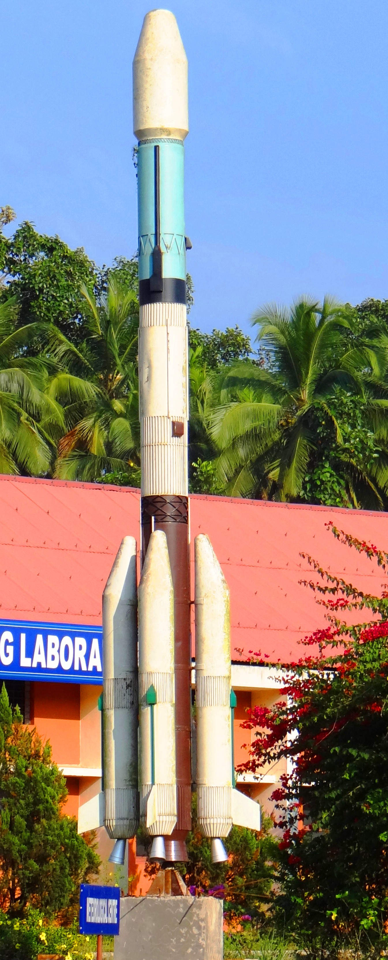 A miniature model of ISRO's GSLV-D5 situated in College Campus.